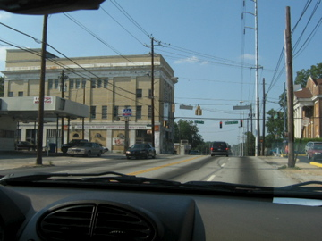 Capitol View masonic Lodge